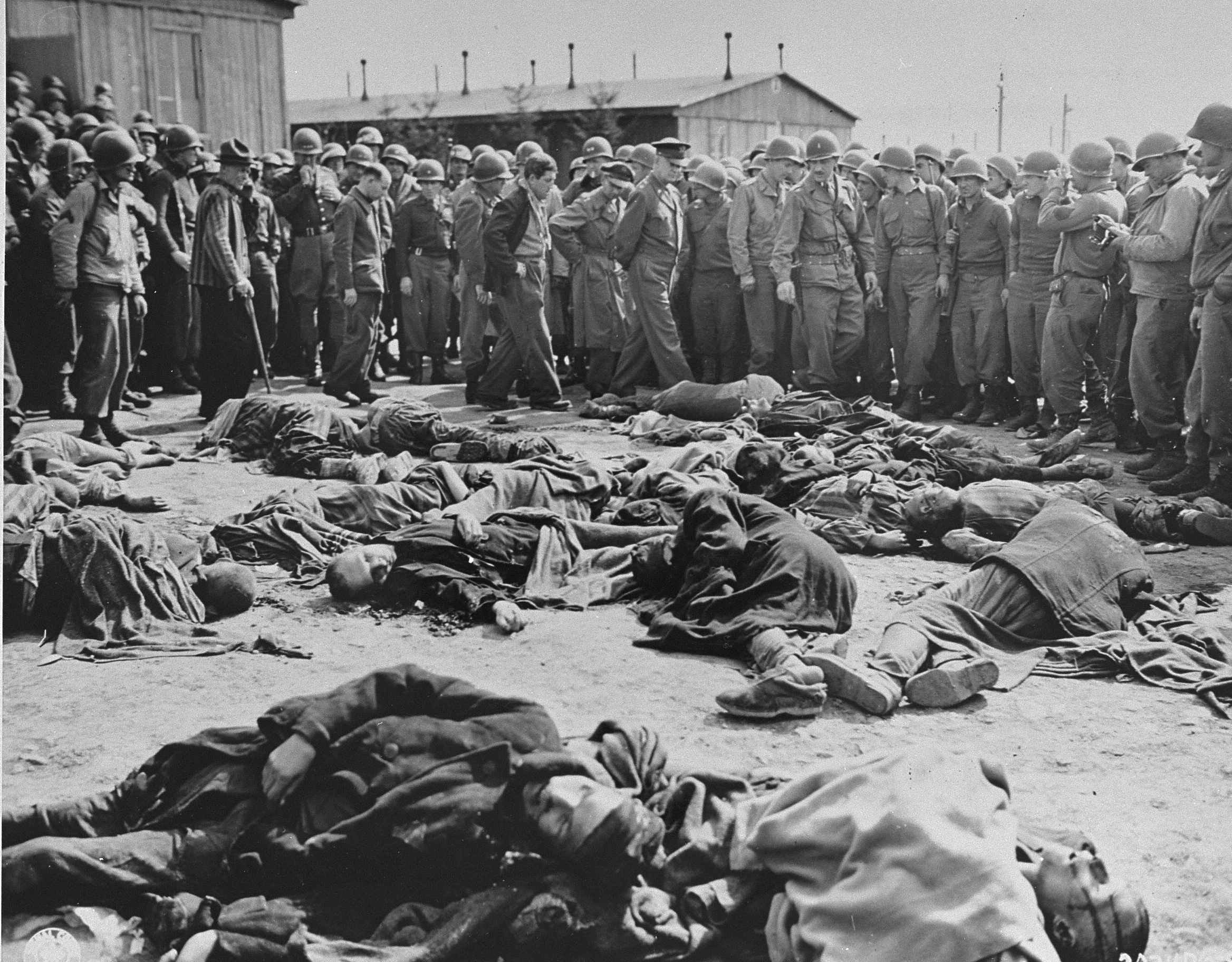 General Dwight Eisenhower and other high ranking U.S. Army officers view the bodies of prisoners who were killed during the evacuation of Ohrdruf, while on a tour of the newly liberated concentration camp.